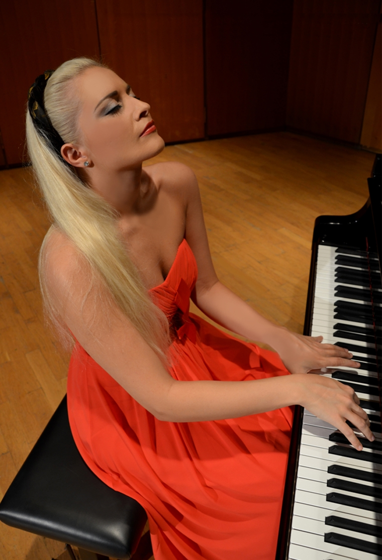 Valentina Babor (2013)